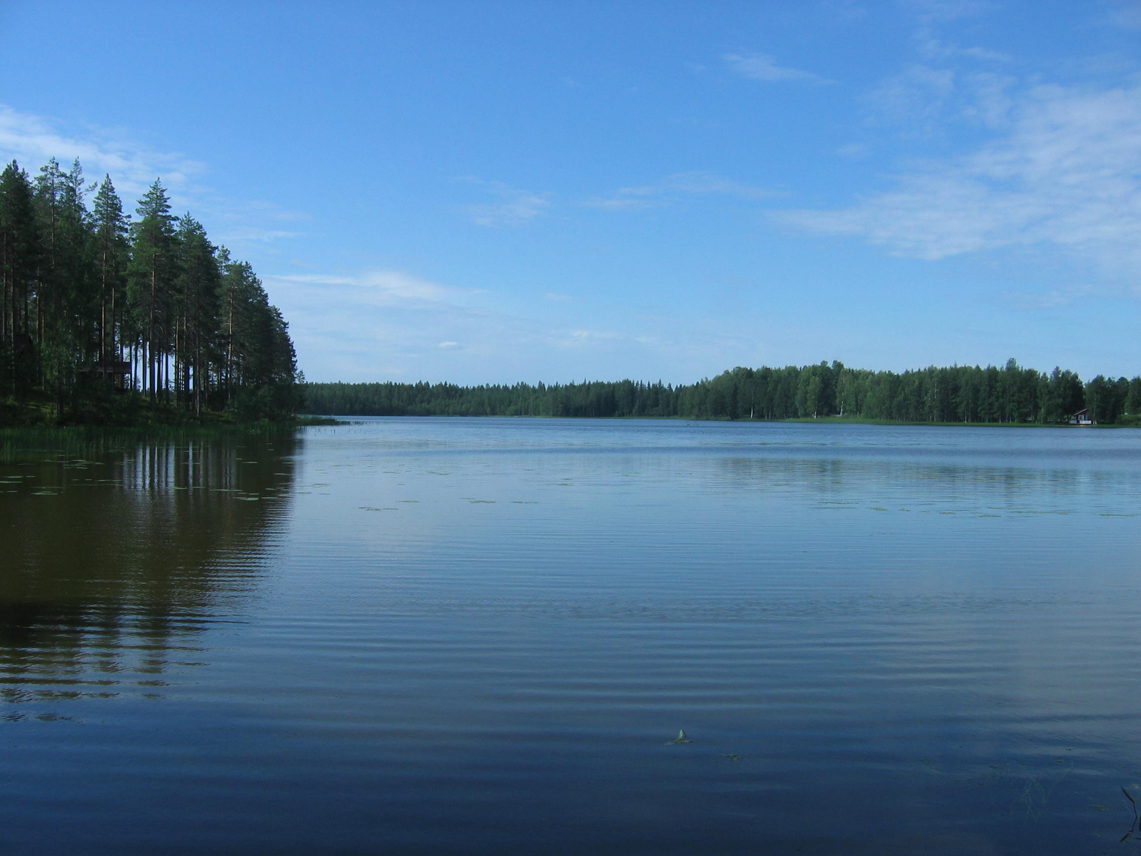 Lake Kivijärvi in Ylikiiminki, Finland